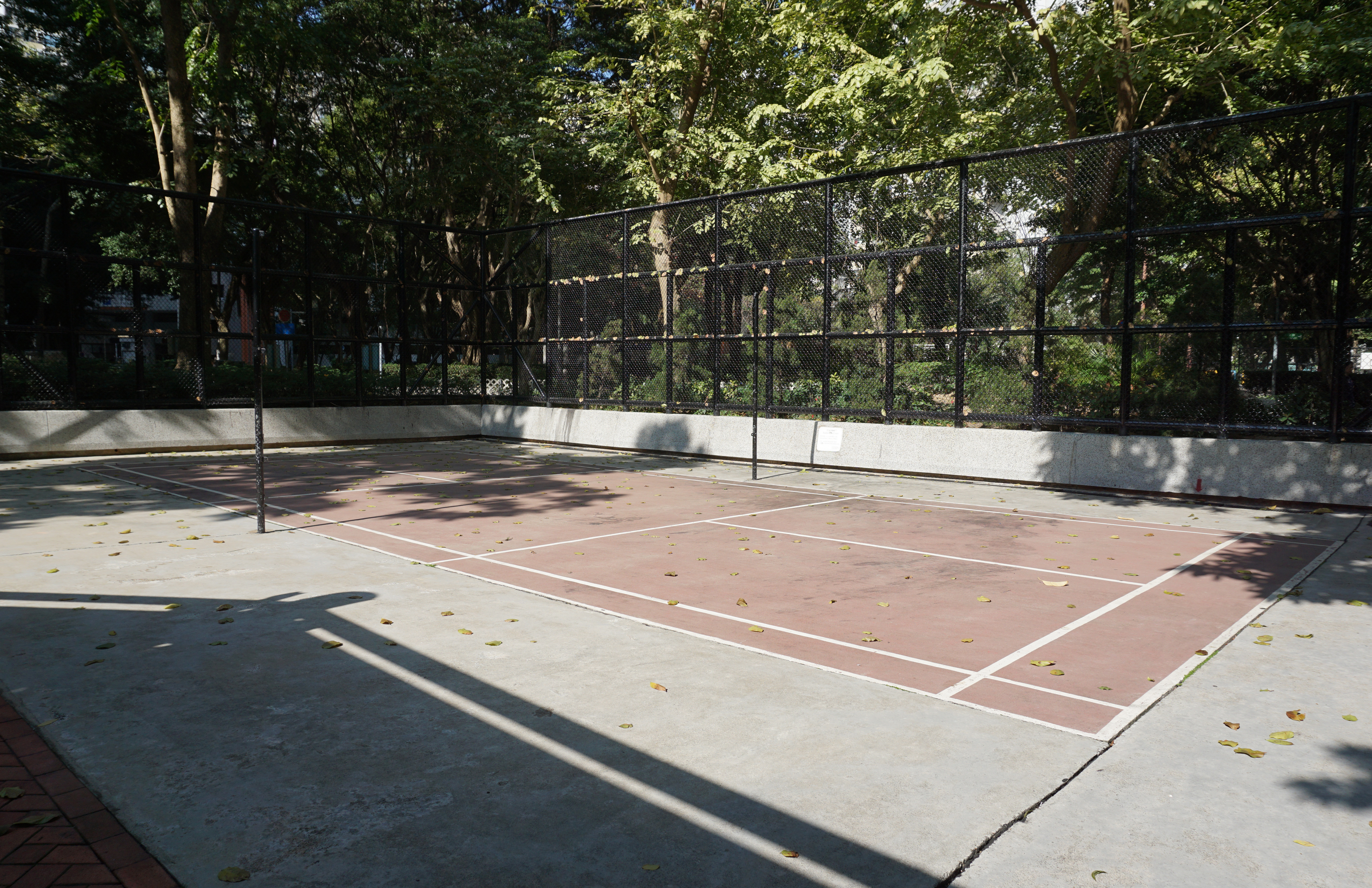 Siu Kwai Court in Tuen Mun, Hong Kong.